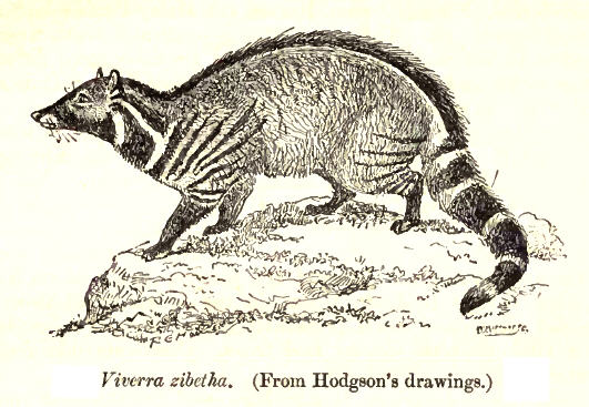 Illustration of Viverra zibetha